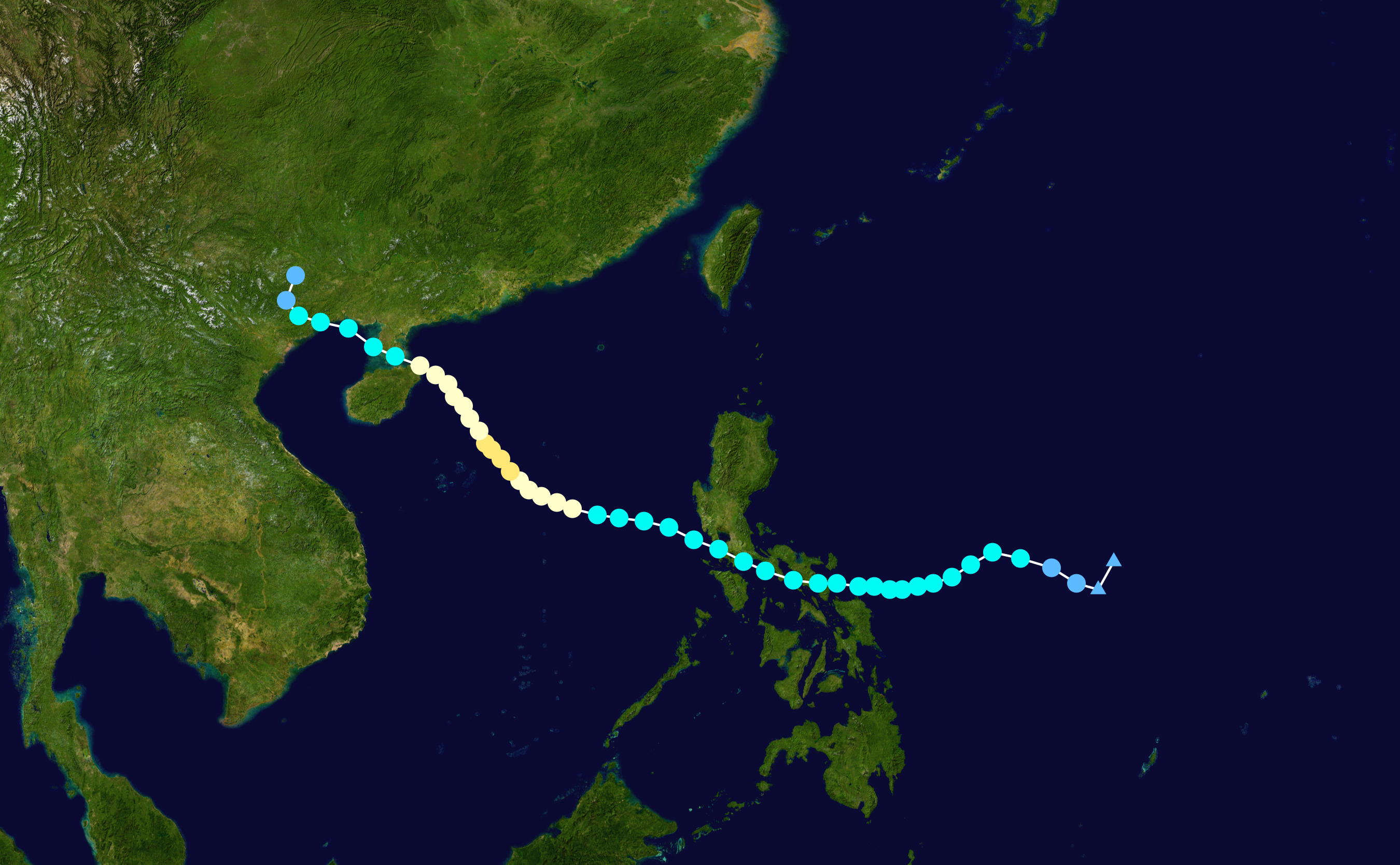 Typhoon Irving 1982 track. Uses the color scheme from the Saffir-Simpson Hurricane Scale.